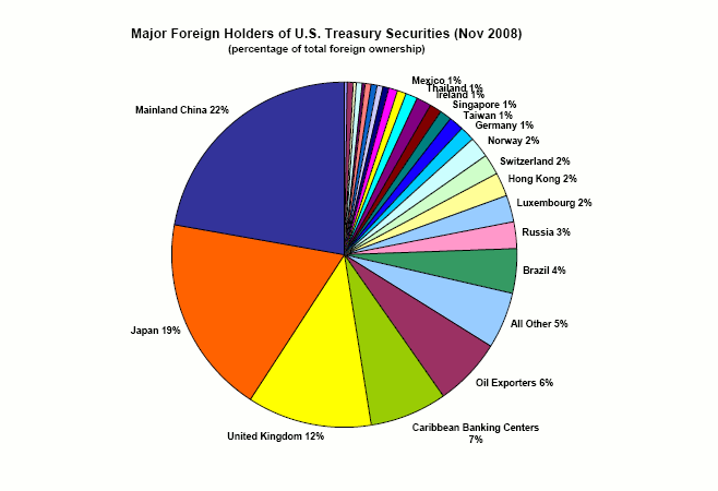 Chart made in Excel, then converted to .gif file. The percentage share of the foreign holders of United States Treasury Securities as of Nov 2008. The data for this was obtained from